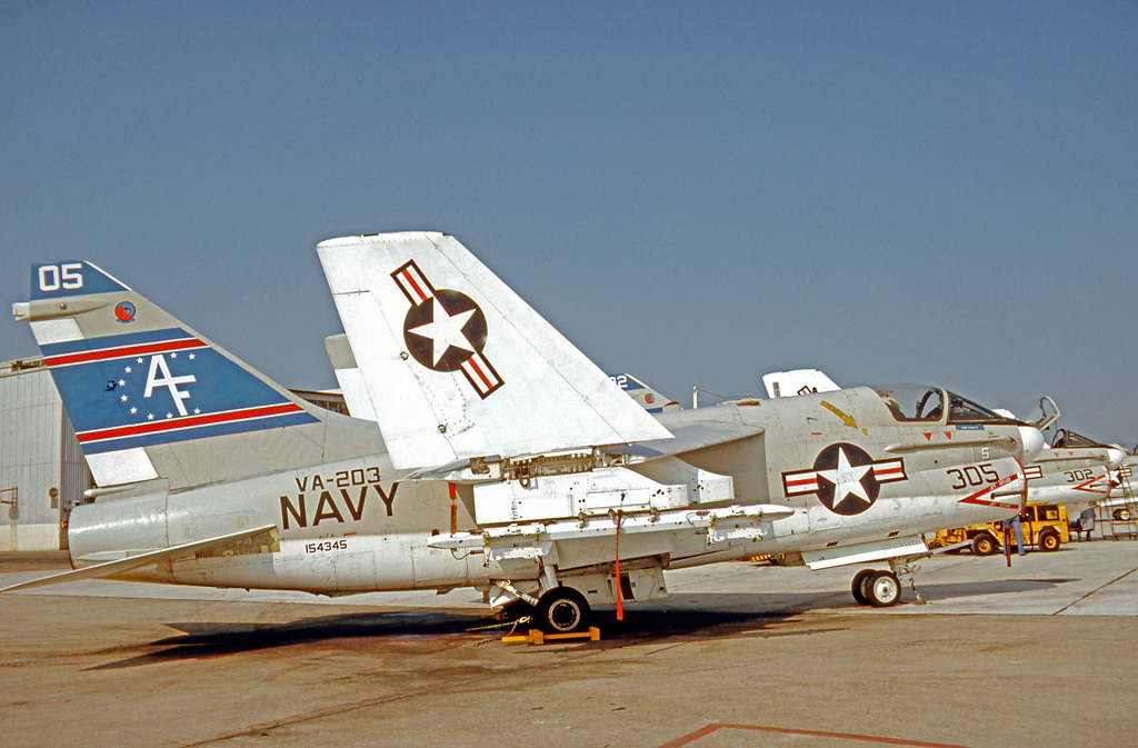 LTV A-7A Corsair II 154345 of VA-203 "Blue Dolphins" at NAS Jacksonville Florida in 1976